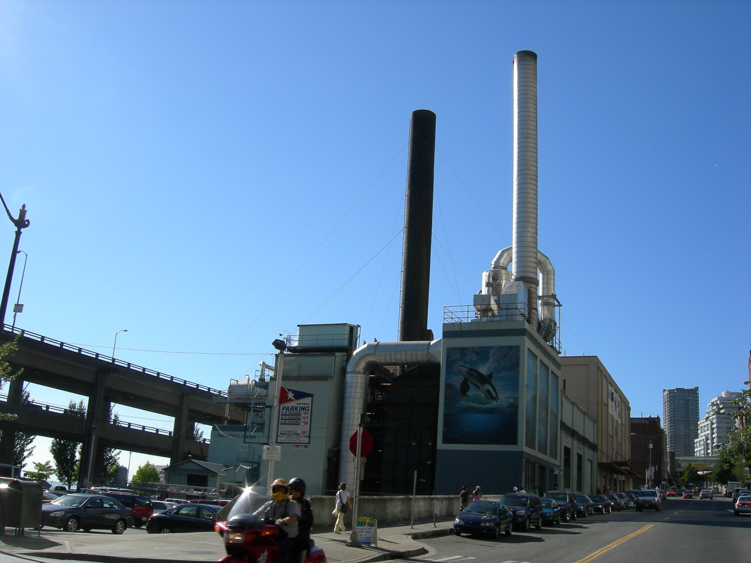 Seattle Steam Company building seen from Western Avenue, Seattle, Washington